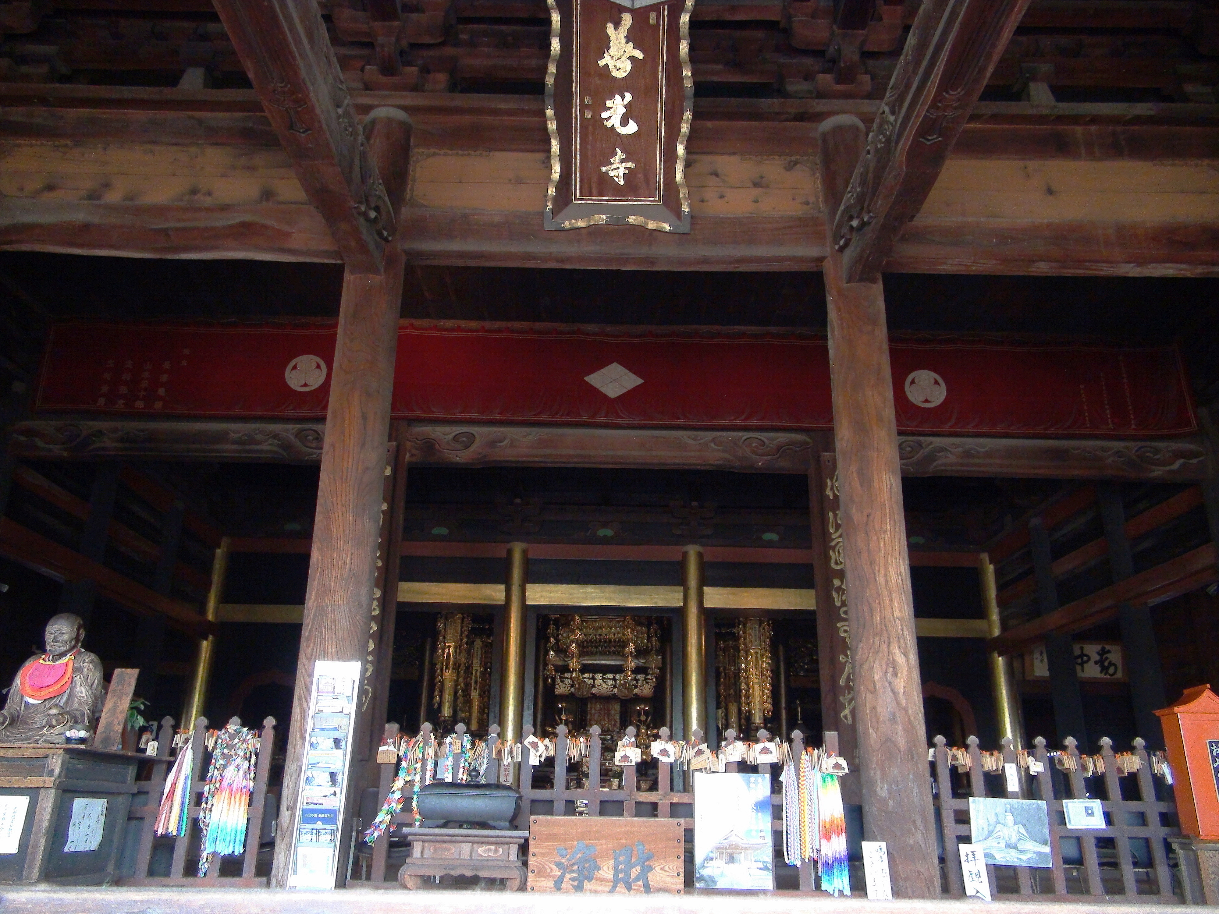 Kai-Zenkoji-temple hall of a Buddhist temple inside №1